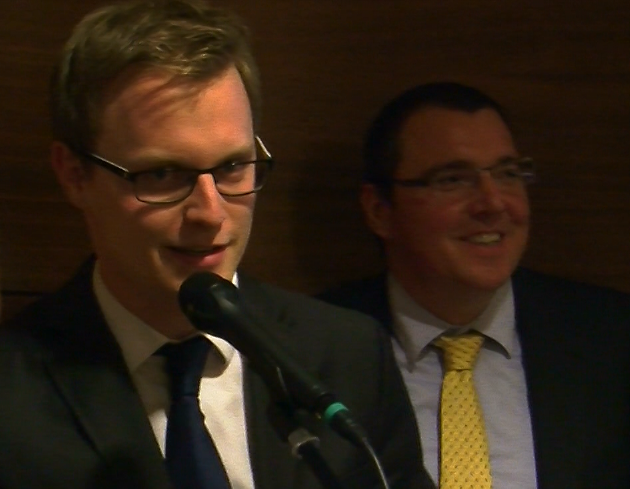 František Bostl, Czech Macroeconomist, and Miroslav Singer, Governor of Czech National Bank